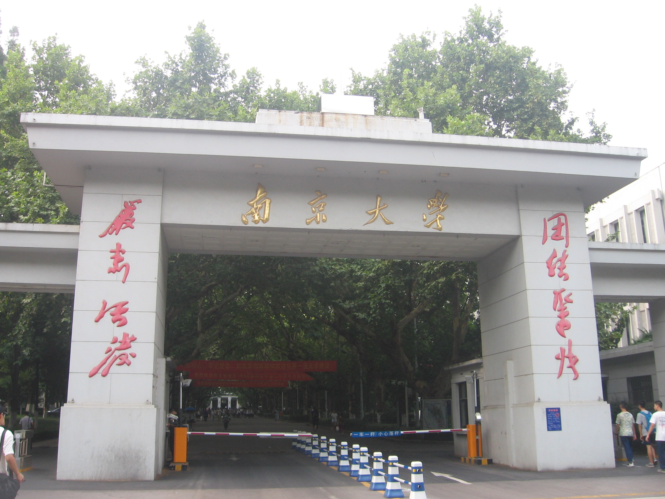 Main entrance of the Gulou Campus of Nanjing University, Nanjing, China.